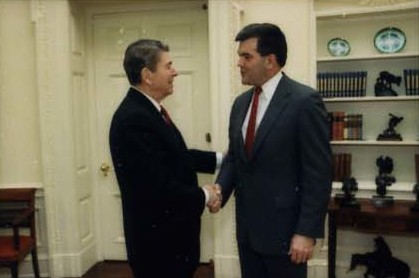 President Ronald Reagan, Doug Williams, and Nat Fine (3-6) Ceremony to Congratulate Super Bowl XXII winners Washington Redskins President Ronald Reagan, Joe Gibbs, Bobby Beathard, and Doug Williams (7-22) Ceremony to Congratulate Super Bowl XXII winners Washington Redskins William Ball holding a football (23-24) Unidentified man holding Super Bowl Vince Lombardi trophy (25-26) President Ronald Reagan, Howard Baker, Ken Duberstein, Jim Kuhn, and Colin Powell (27-30) President Ronald Reagan and Tom Ridge (31-33) Meeting with Republican Congressman Thomas Ridge on Aid to Nicaraguan Democratic Resistance (Contras)